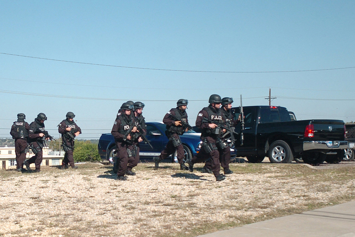 SWAT team members approach a building with a gunman inside. Thirteen people were killed and 30 more wounded in an attack by a lone gunman at Fort Hood, Texas, Nov. 5, 2009. U.S. Army photo by Sgt. Jason R. Krawczyk See more at